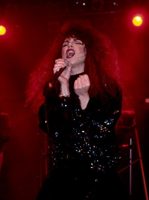 Lee Aaron Massey Hall